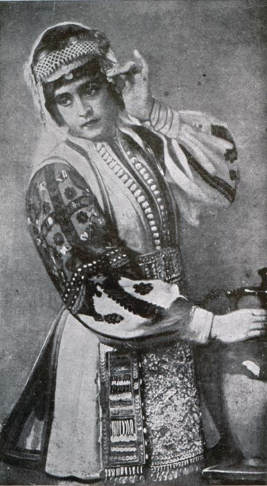 Traditional woman clothes from Gostivar, Macedonia